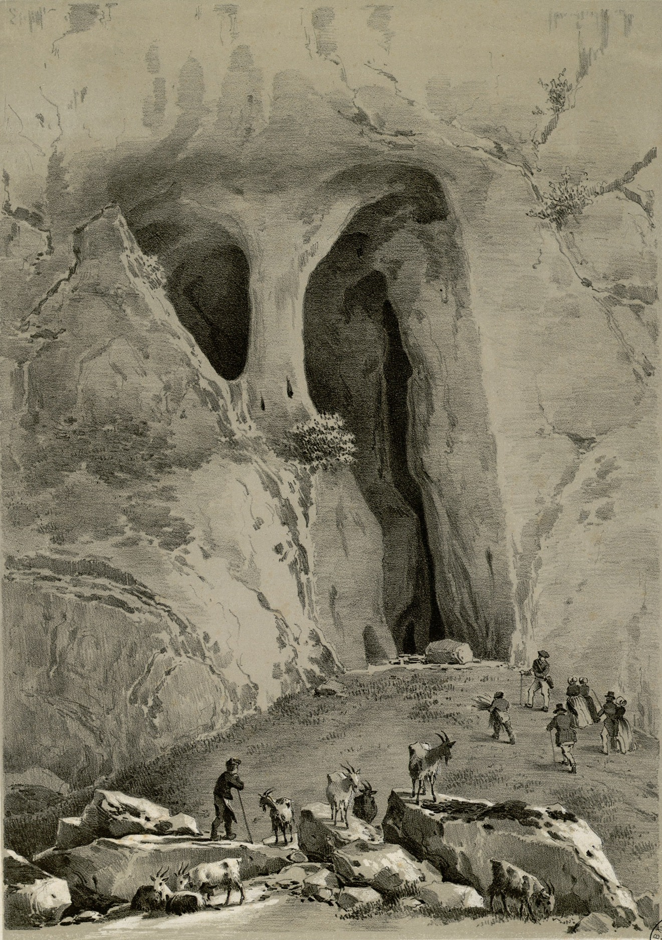 The entrance of the cave of Trobath (Gascony, Occitania)